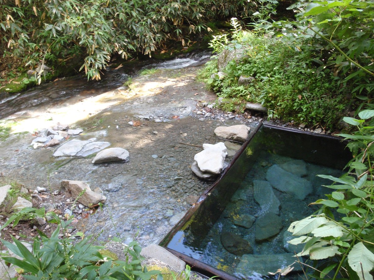 Kawamata spa in noboribetsu, Hokkaido.